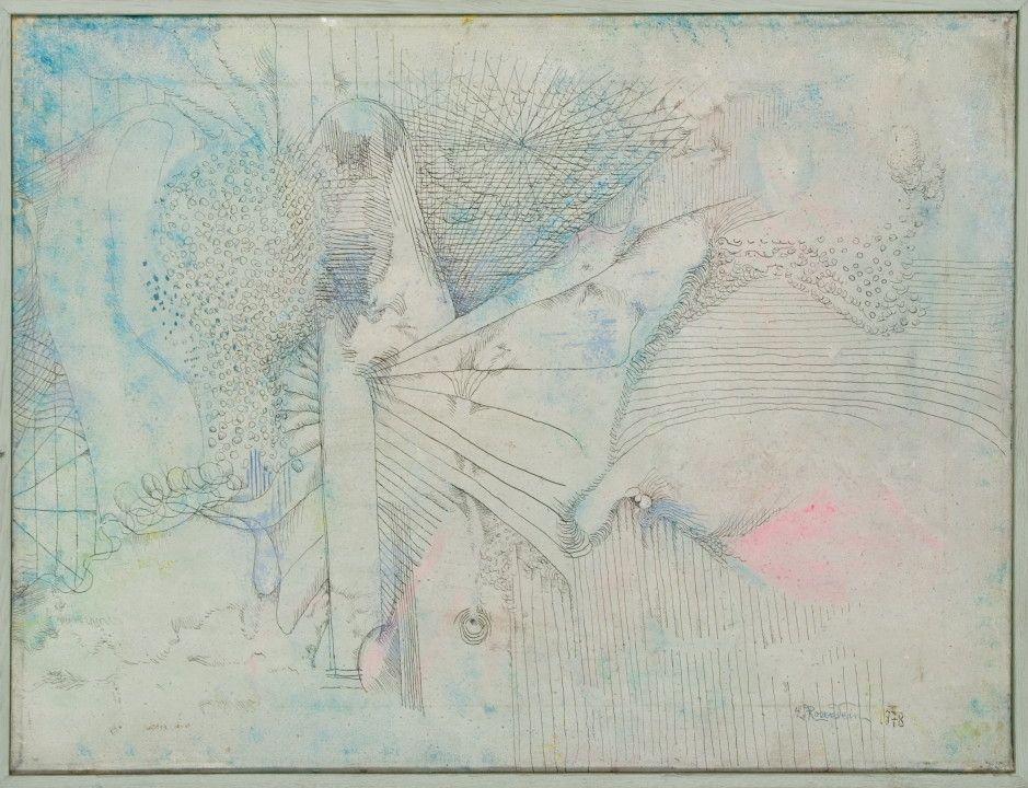 Twilight of the Painting by Erna Rosenstein